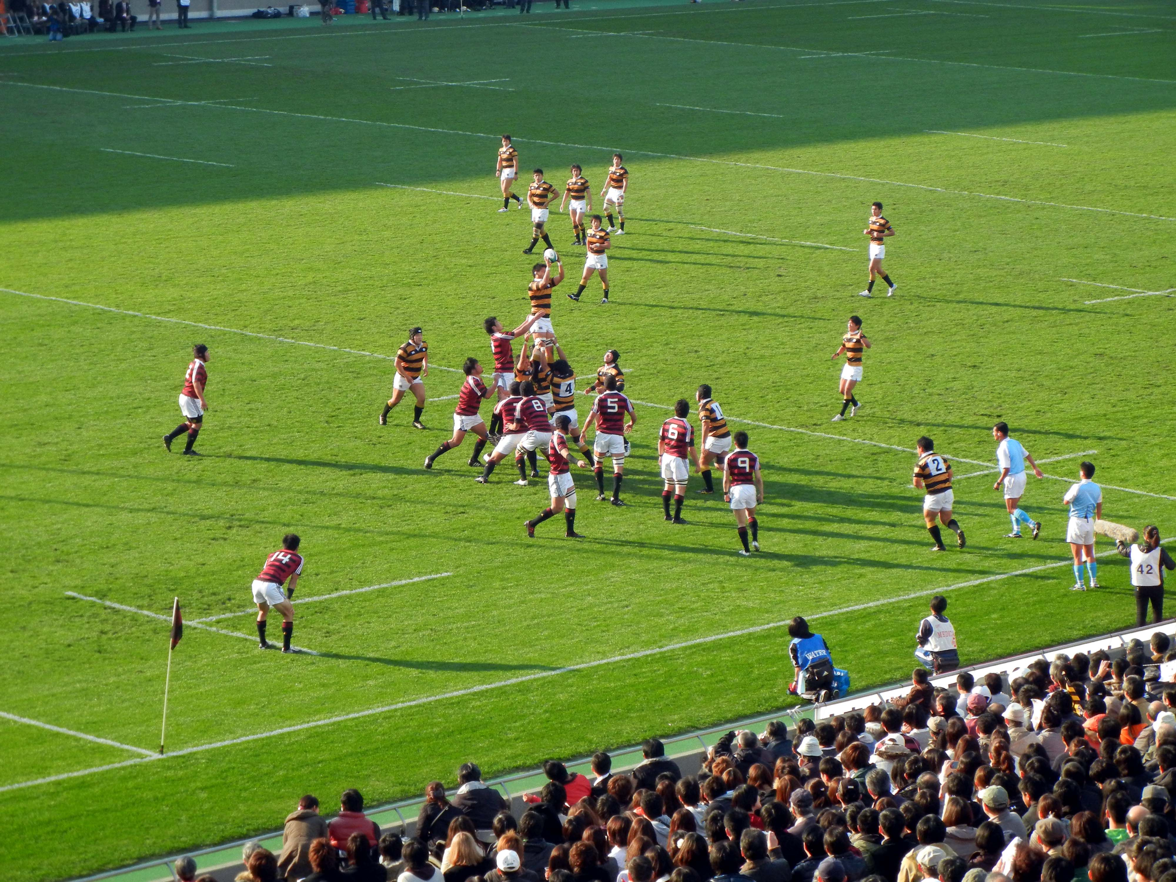 Rugby Keio University vs Waseda University